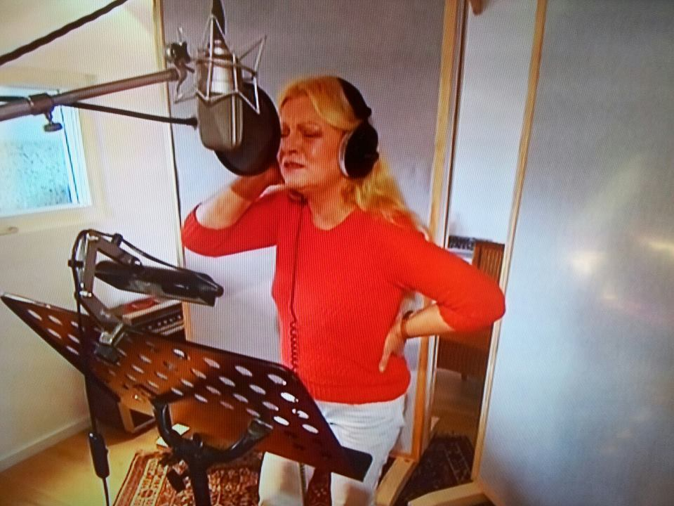 Colored picture of Toni in recording studio, recording her new single 'Happy' with song writer Paul Logister